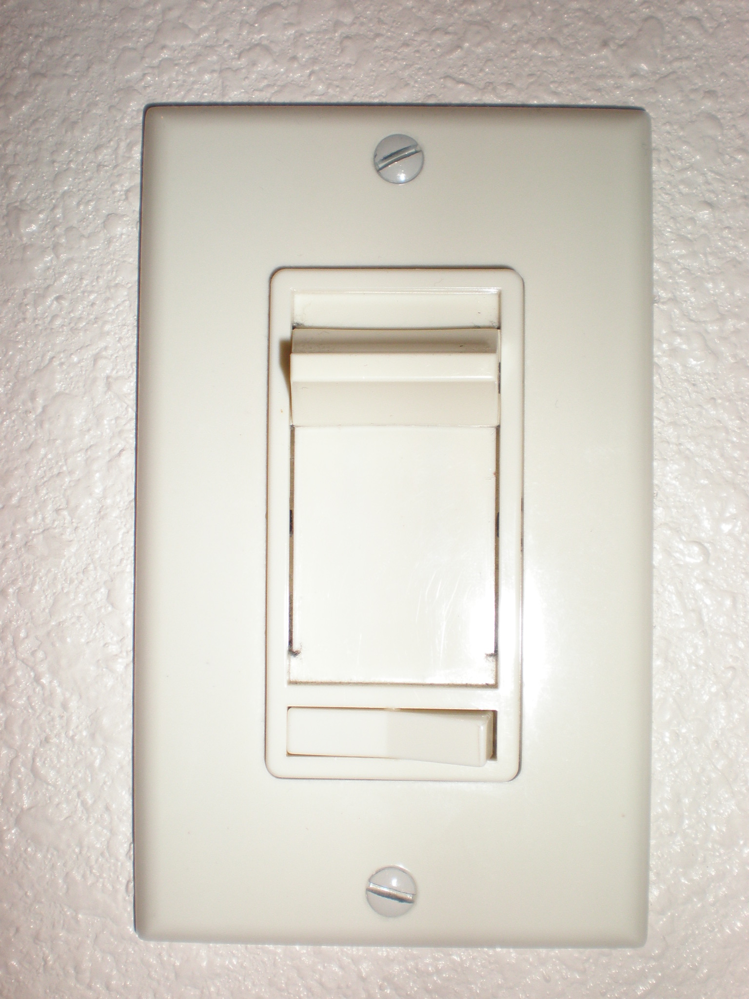 An electric residential lighting dimmer switch in a home in South San Francisco, California.